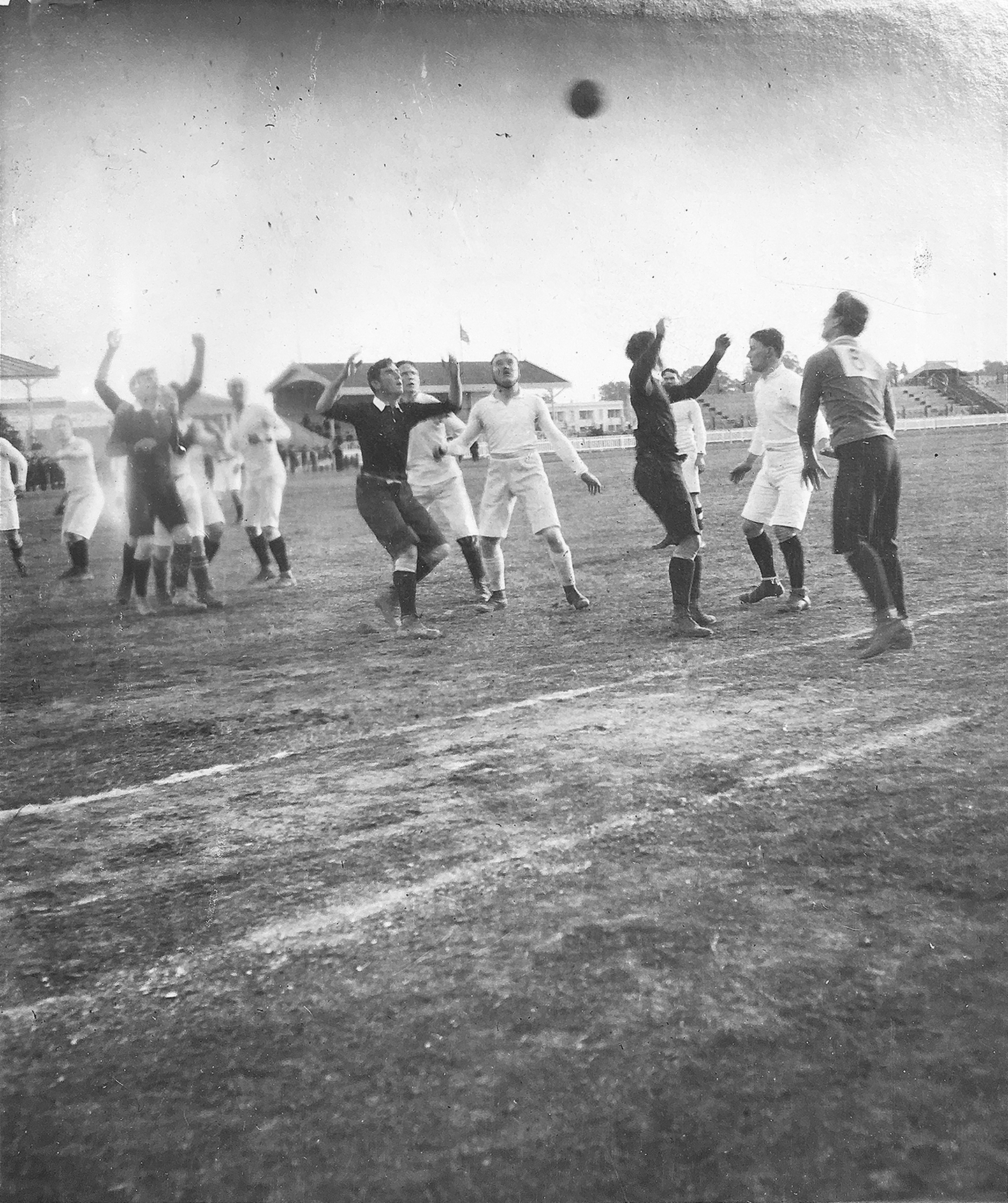 The first Argentina national rugby team international v. the British and Iriish Lions (called "British Combined" by the local media). Argentina wore dark blue jerseys.